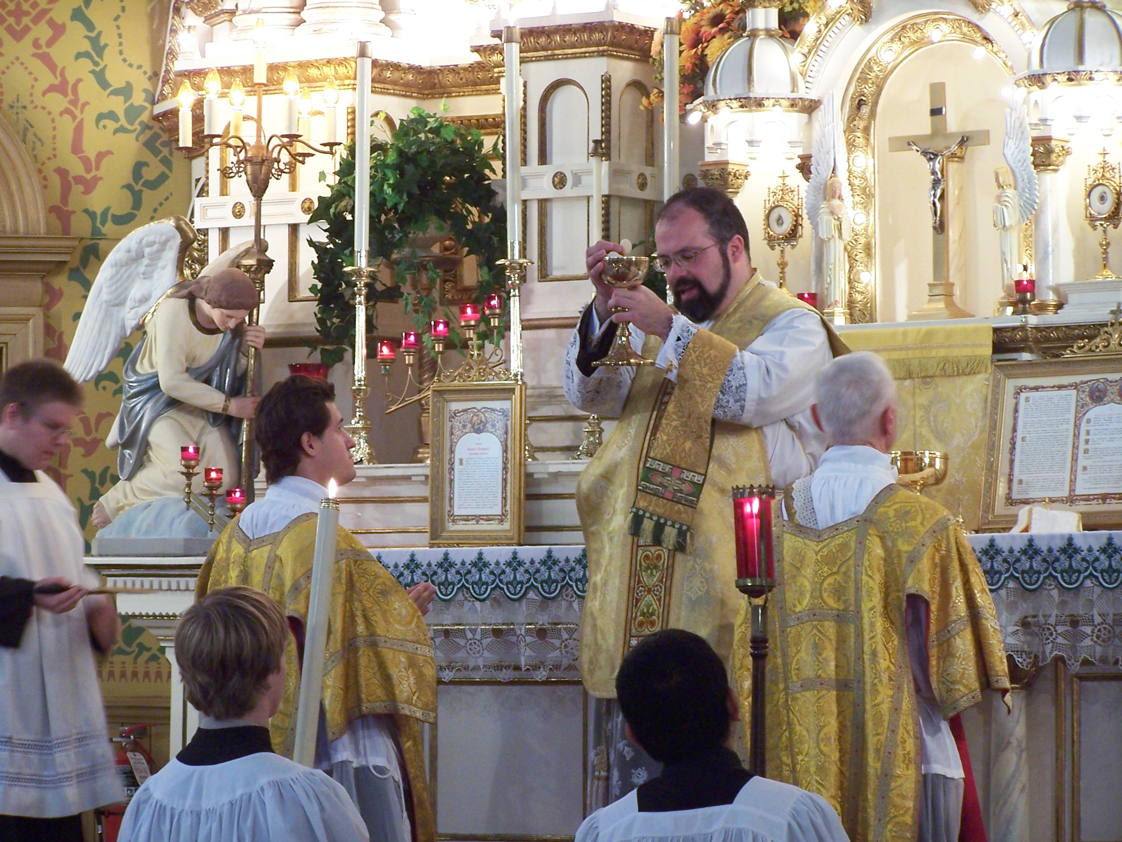 The Ecce Agnus Dei during Solemn High Tridentine Mass at St. Josaphat Catholic Church.